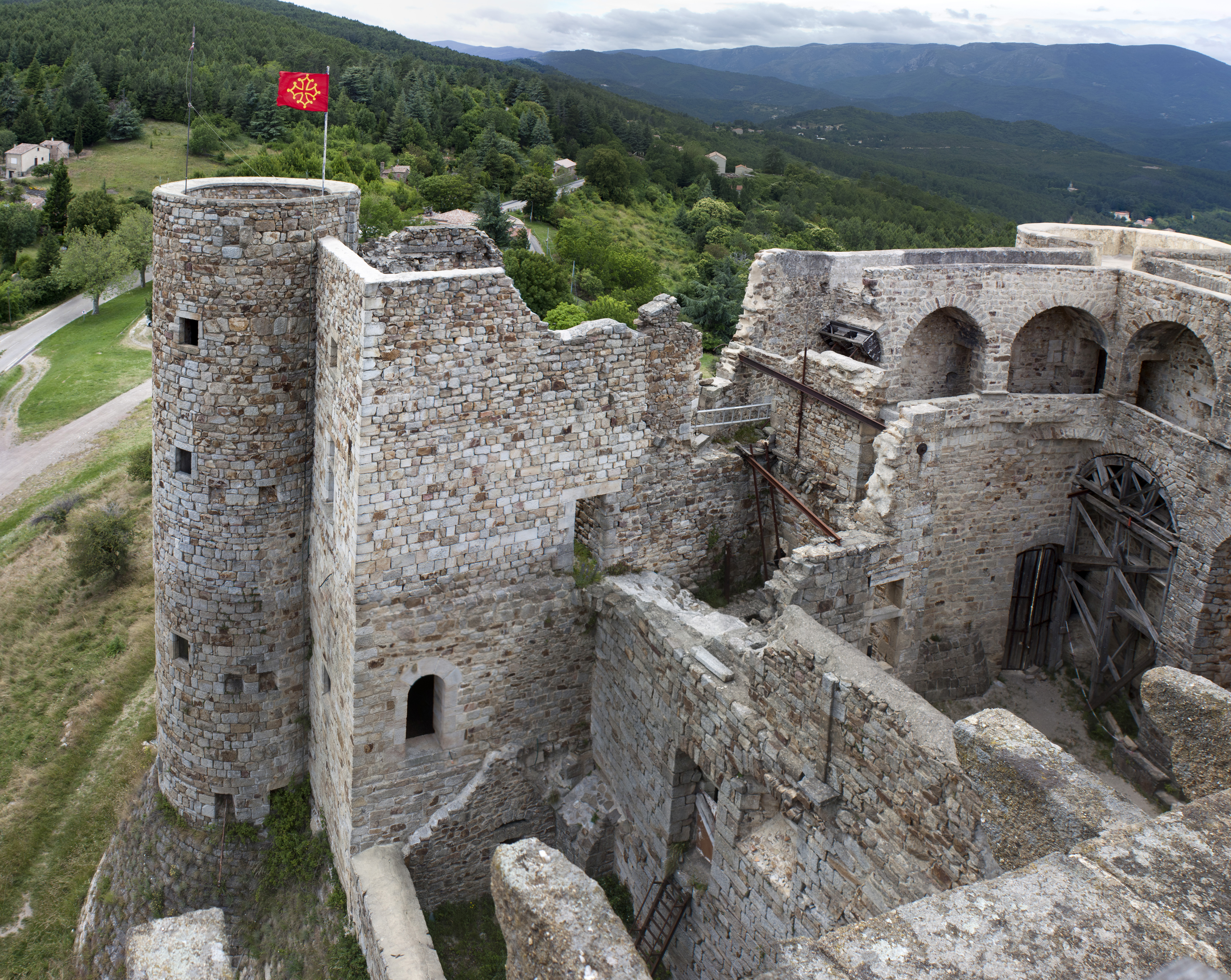 West front and south-west tower of the castle-old, recently picked up after a mine collapse that caused the disappearance of the village and the falling of the castle of 0,82 yd in only one night de 1930. (View from the terrace of the new-castle)